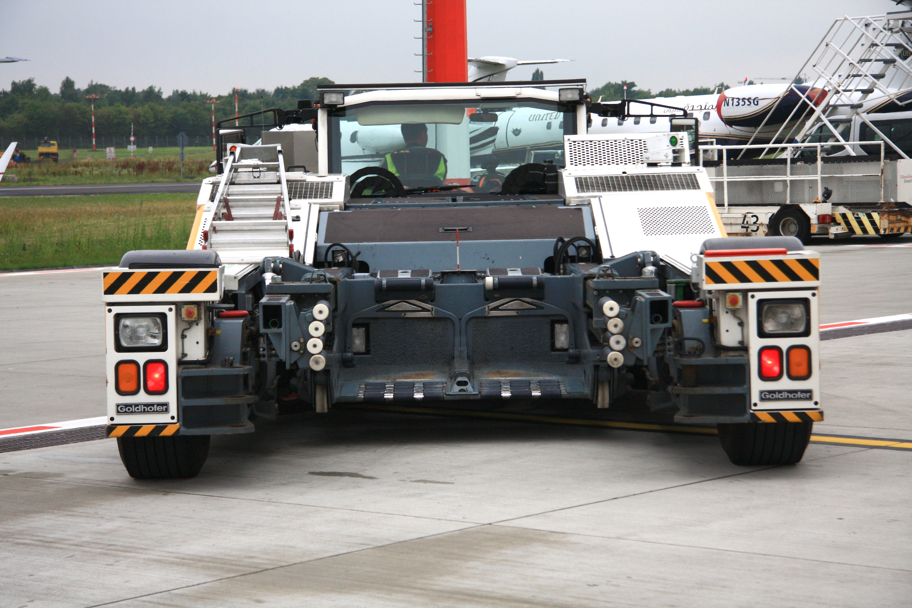 A Goldhofer Pushback tractor at the Düsseldorf International Airport